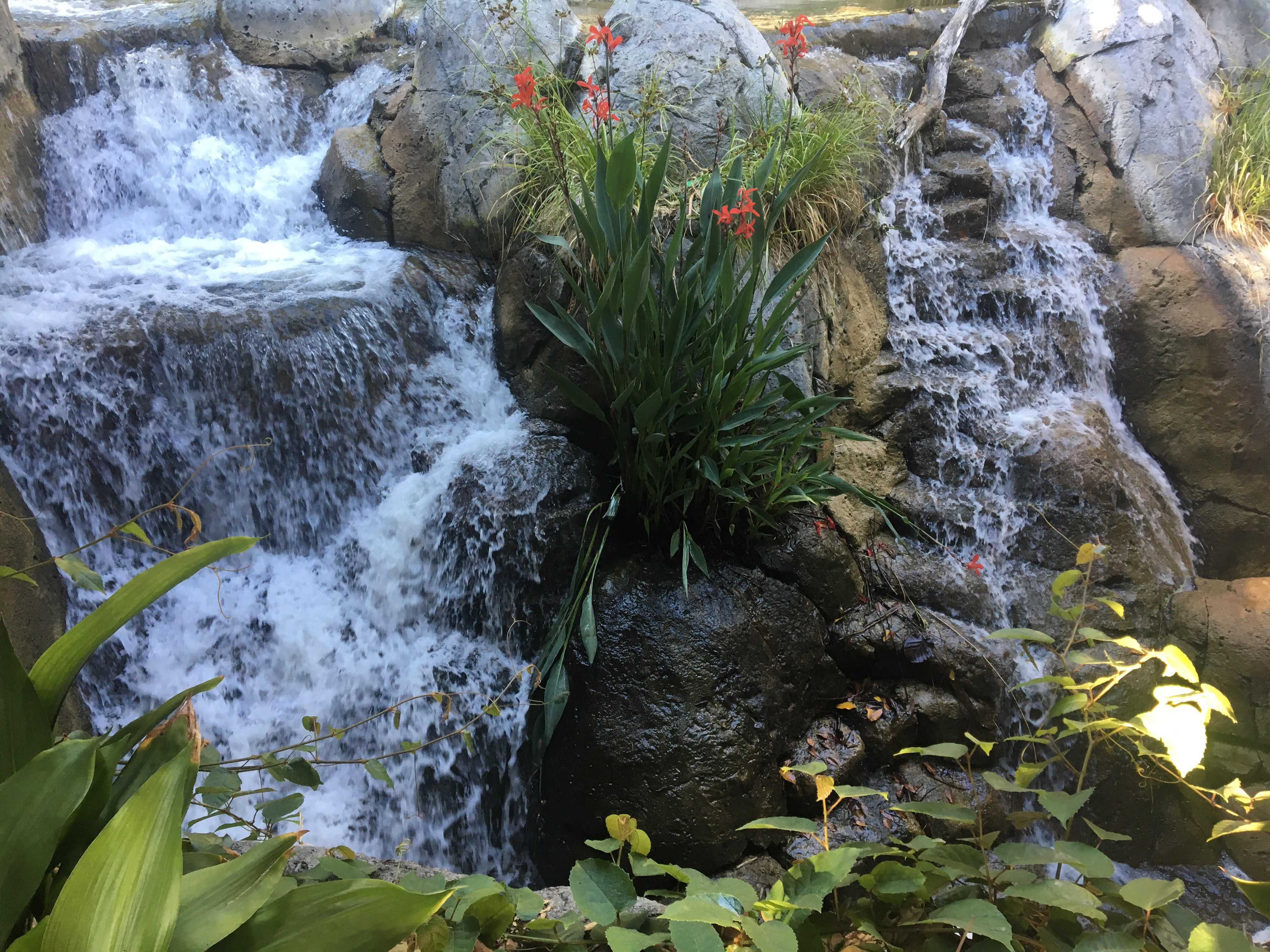 An example of one of the thousands of different kinds of plants that call the San Diego Zoo home.